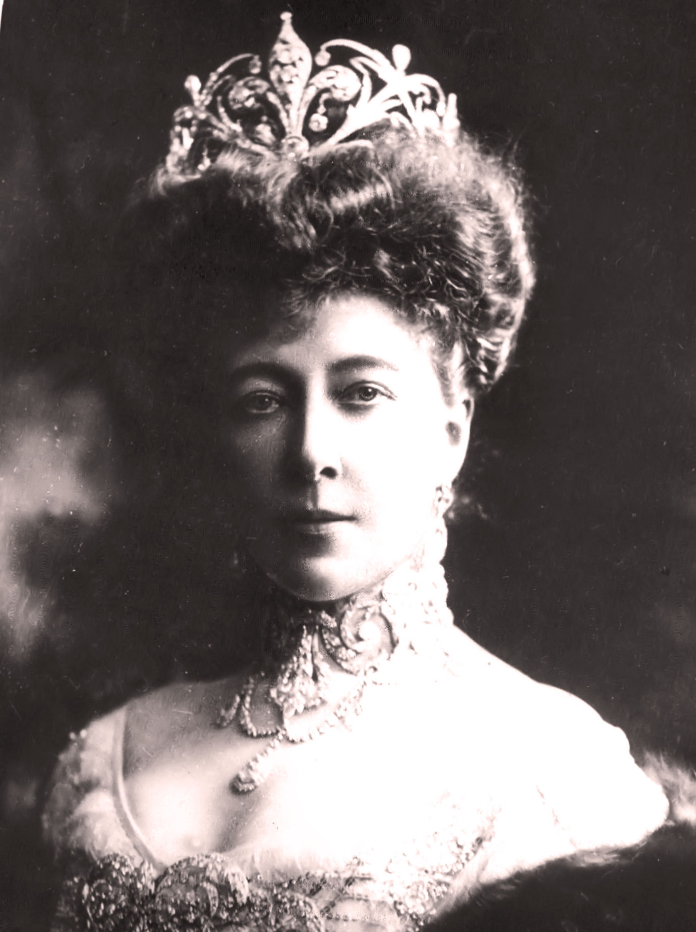 Portrait of Stéphanie of Belgium (1864-1945)